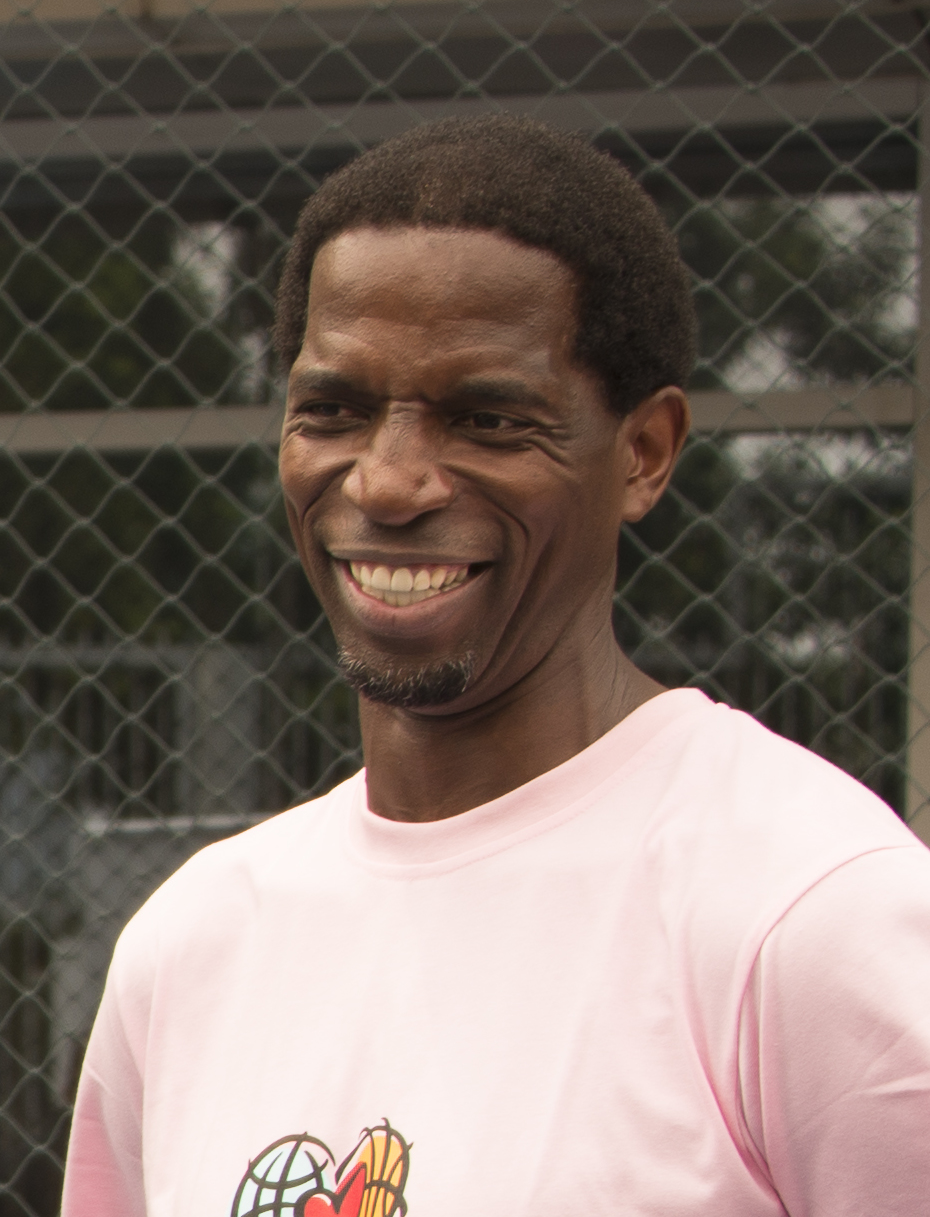 Ambassador Blake joined with the NBA’s community outreach initiative, NBA Cares, on Thursday, Sept 4th at the Embassy basketball court, to help promote basketball in Indonesia and support the efforts of the Special Olympics. The Ambassador spoke about the effectiveness of sport in bridging cultural divides to an audience of 30 Special Olympics athletes just before opening the event by firing off a jumpshot of his own. NBA legends Horace Grant and A.C. Green led the coaching clinic and later fielded questions from members of the local media. Photo Credit: State Dept./Budi Sudarmo